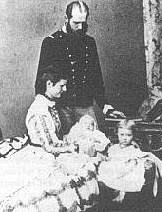 Royal Princess Maria Annunziata of Bourbon-Sicilia, second wife of Archduke Karl Ludwig of Austria, mother of Archduke Franz Ferdinand of Austria